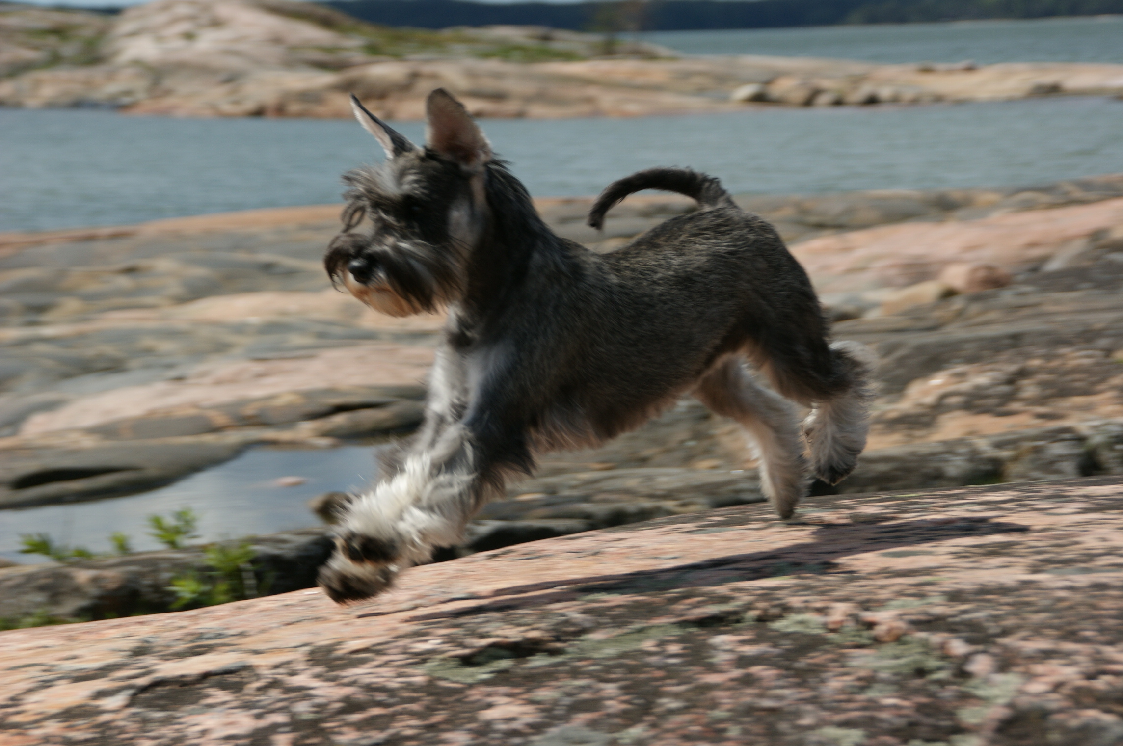 Miniature Schnauzer salt & pepper.